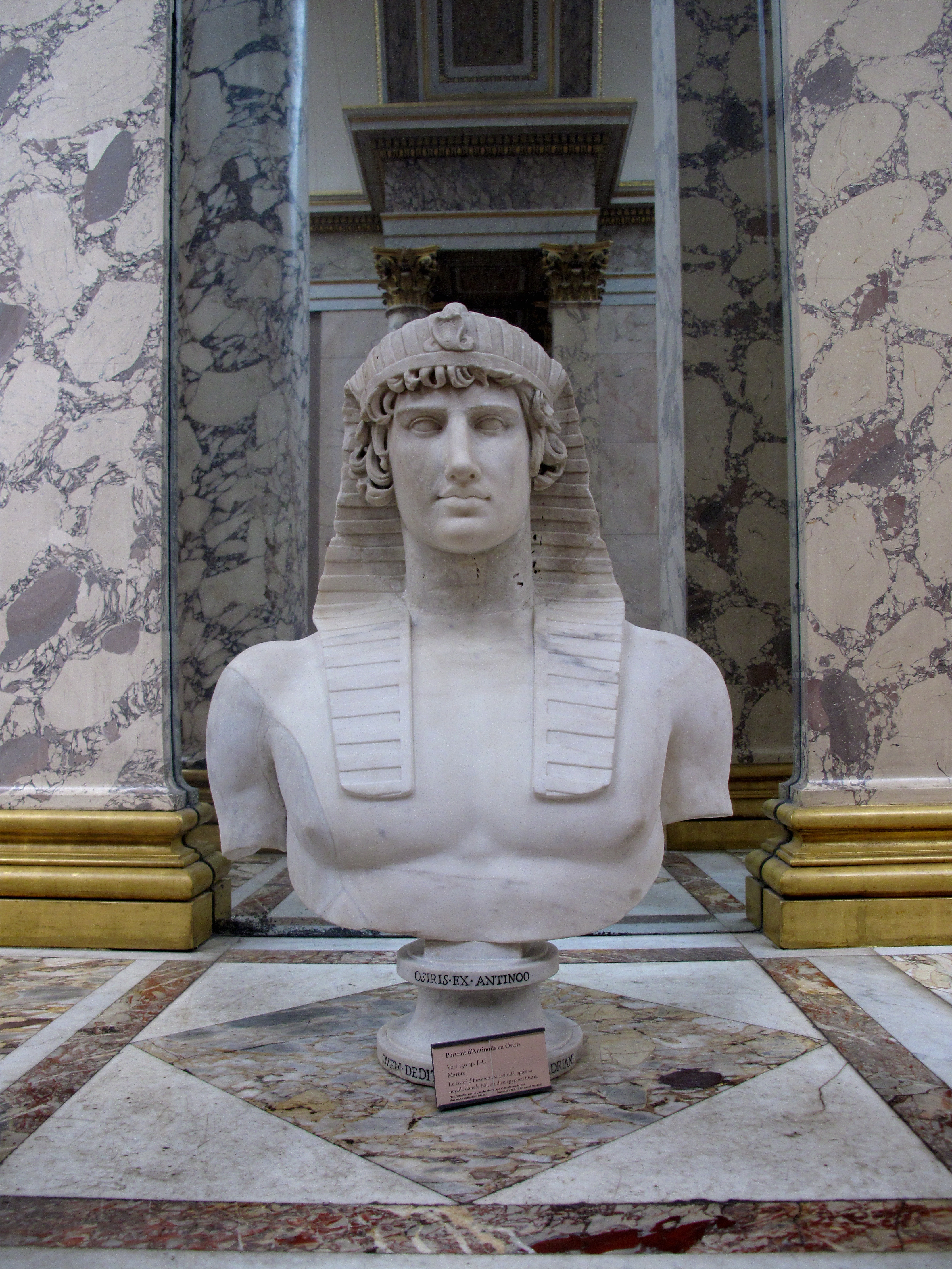 Antinous Osiris in the Louvre